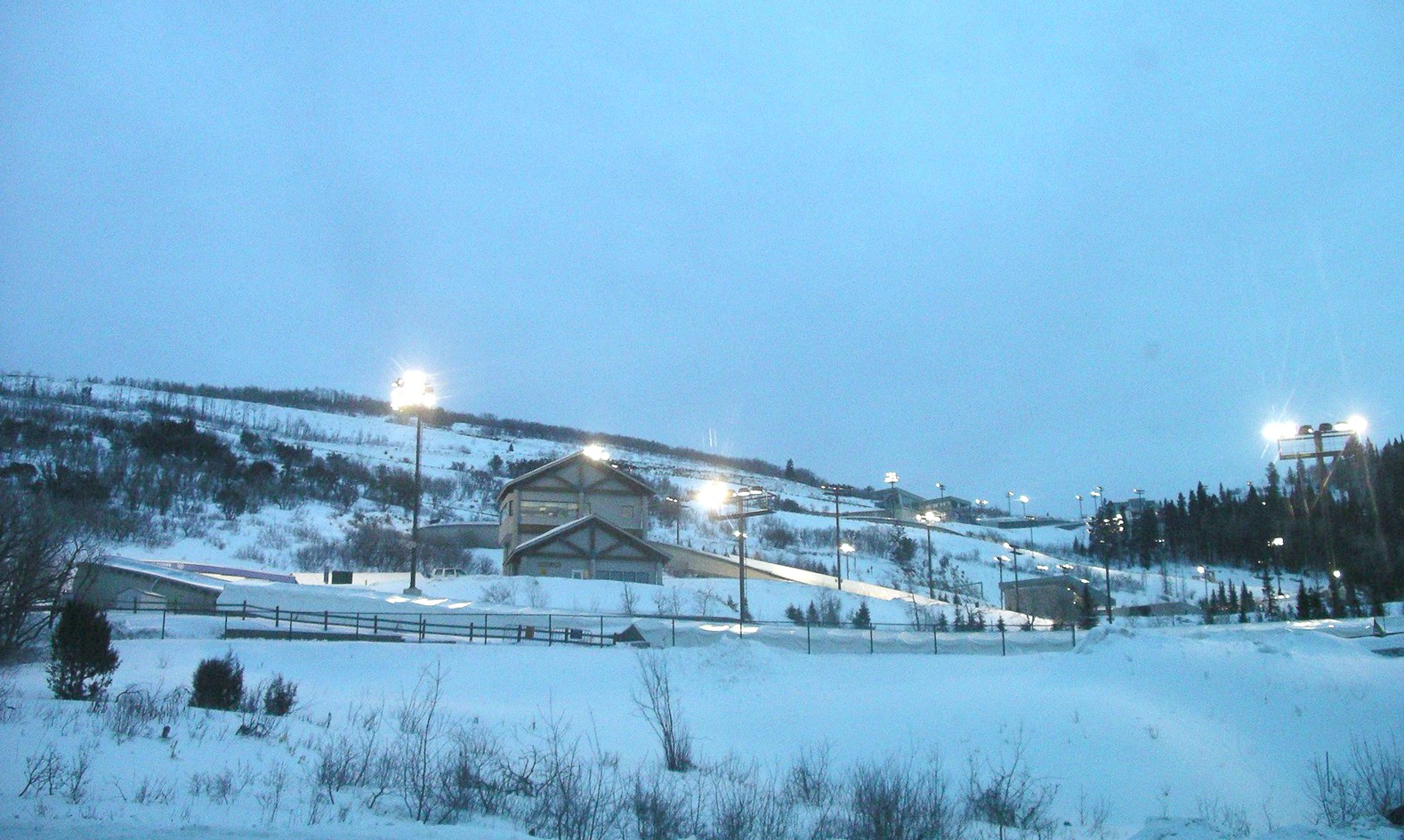 This is a picture of the Utah Olympic Park Track taken from the bottom. Taken by Brad Stewart.